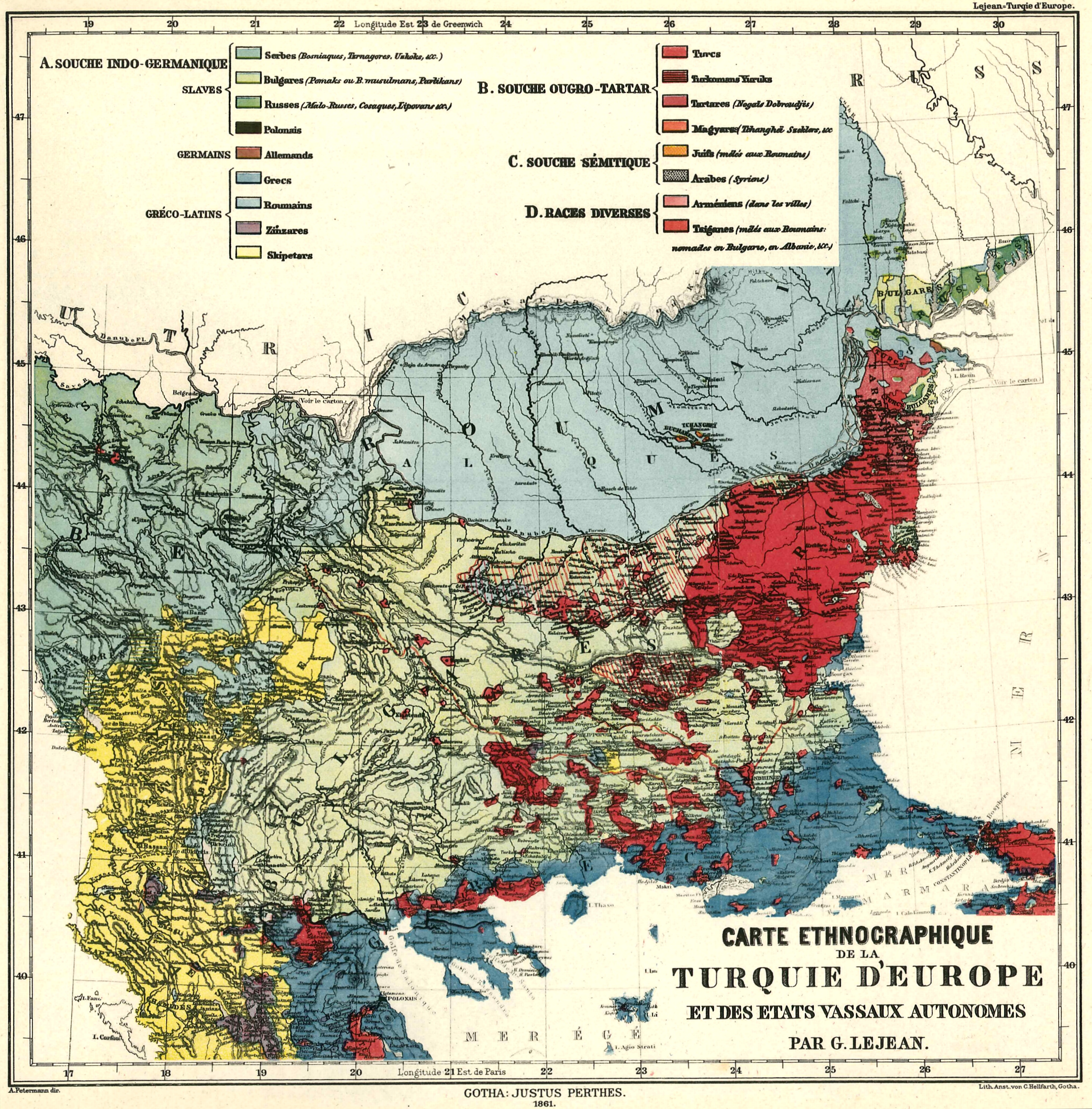 Ethnic map of European Turkey